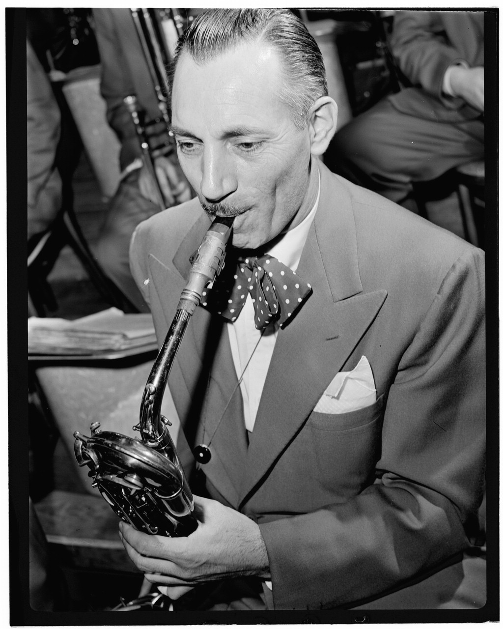 Gottlieb, William P., 1917-, photographer. [Portrait of Bob Gioga, 1947 or 1948] 1 negative : b&w ; 3 1/4 x 4 1/4 in. Notes: Gottlieb Collection Assignment No. 176 Reference print available in Music Division, Library of Congress. Purchase William P. Gottlieb Forms part of: William P. Gottlieb Collection (Library of Congress). Subjects: Gioga, Bob Stan Kenton Orchestra Jazz musicians--1940-1950. Saxophonists--1940-1950. Format: Portrait photographs--1940-1950. Film negatives--1940-1950. Rights Info: Mr. Gottlieb has dedicated these works to the public domain, but rights of privacy and publicity may apply. Repository: (negative) Library of Congress, Prints & Photographs Division, Washington D.C. 20540 USA, (reference print) Library of Congress, Music Division, Washington D.C. 20540 USA, Part Of: William P. Gottlieb Collection (DLC) 99-401005 General information about the Gottlieb Collection is available at Persistent URL: Call Number: LC-GLB23- 0525 This work is from the William P. Gottlieb collection at the Library of Congress. Rights and restrictions. In accordance with the wishes of William Gottlieb, the photographs in this collection entered into the public domain on February 16, 2010.